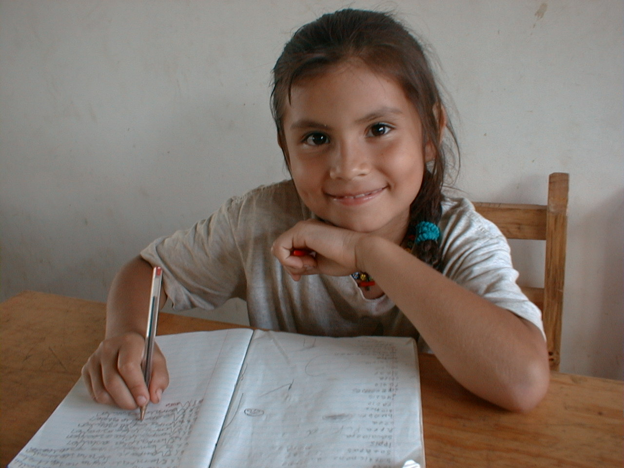 Girl with notebook in new class room provided by the ' Village' project. Camera Info: OLYMPUS SR83 Digital F-stop 2.8 Exposure 1/30 Create date: 1999:09:02 16:10:14 Contact creator at - Page also was a link called "San Ramon, Choluteca Honduras: 1999 first ' Village'" to access the full WEB collection.